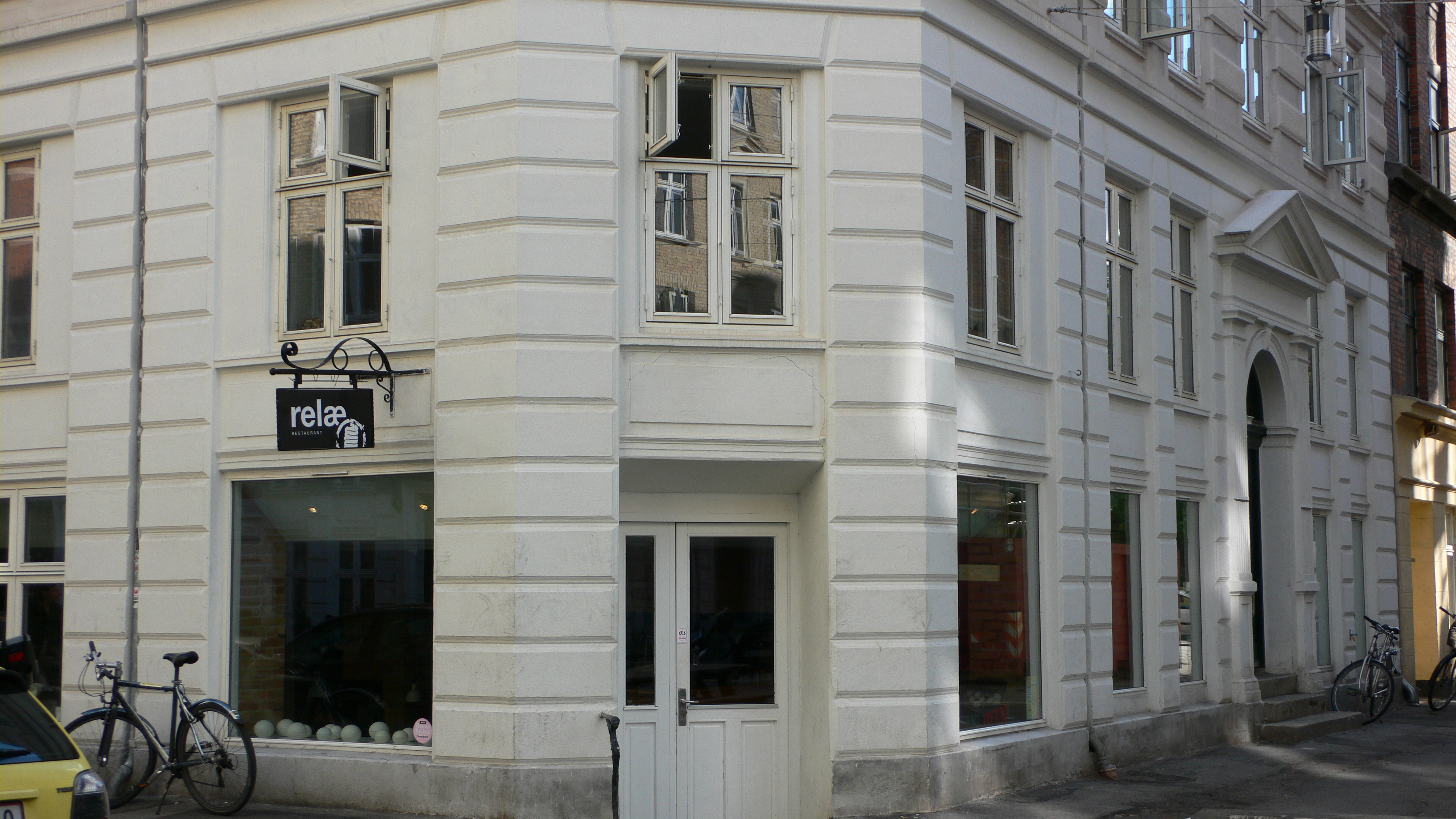 This photo links to my blog article at This photo is licenced under Creative commons for use including commercial on condition that you link back to or credit See my profile for more detail.